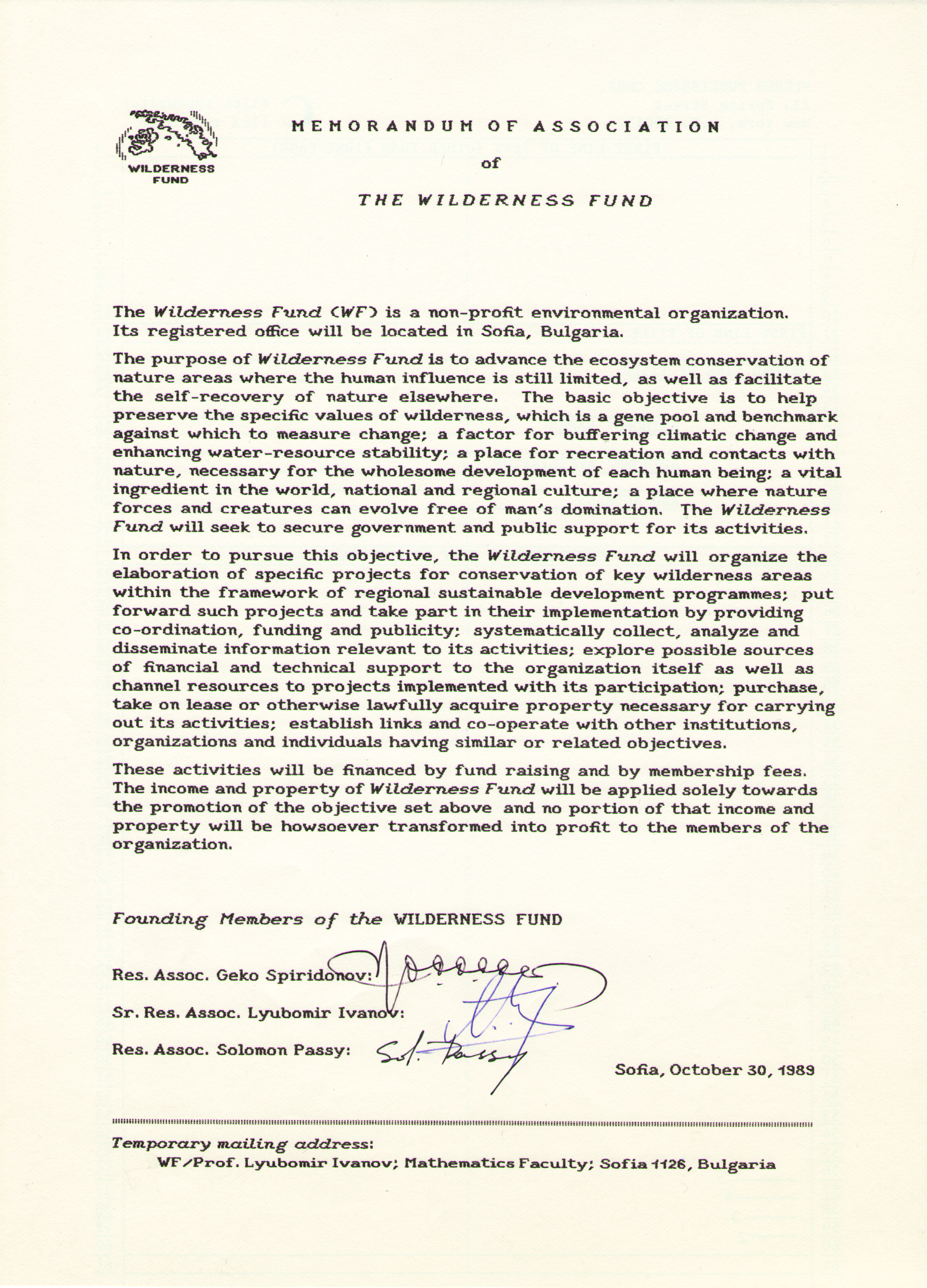 Memorandum of Association of the Wilderness Fund, 1989.